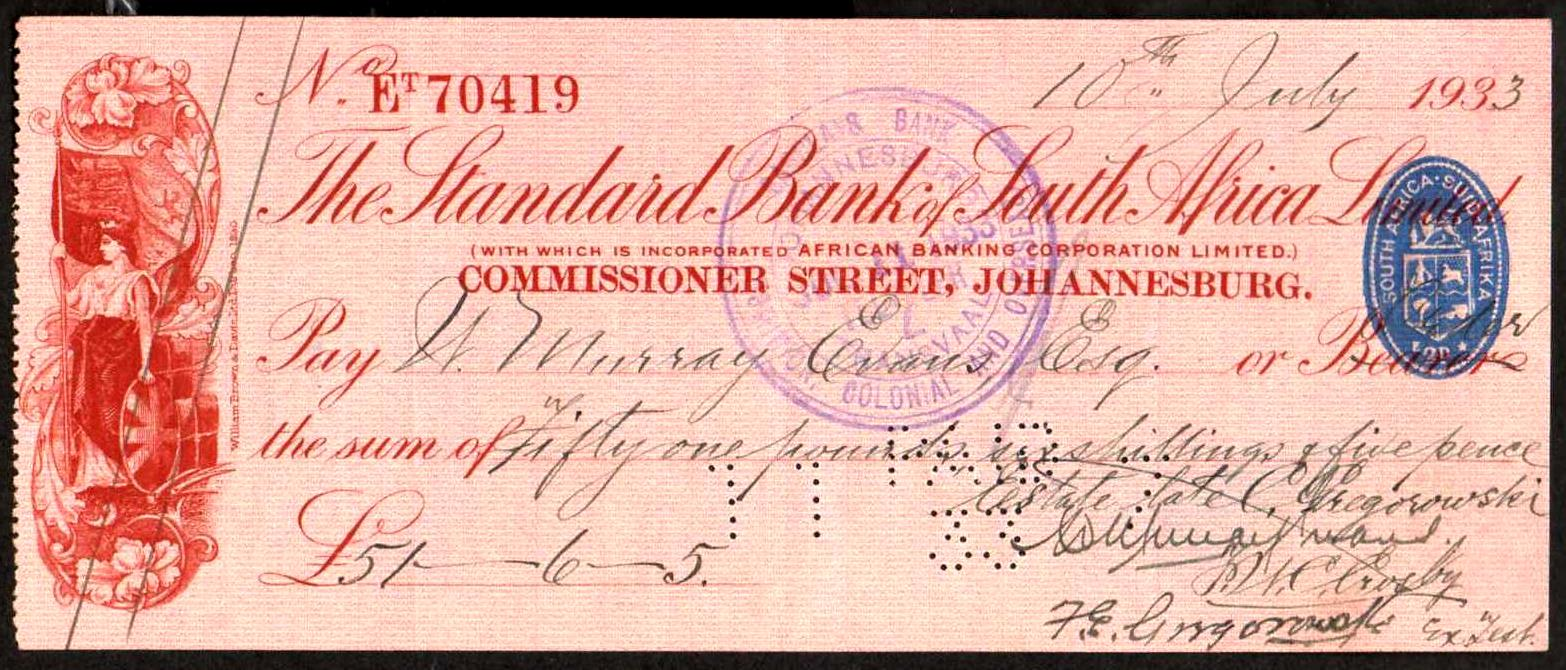 A 1933 cheque of The Standard Bank of South Africa with an impressed duty stamp.